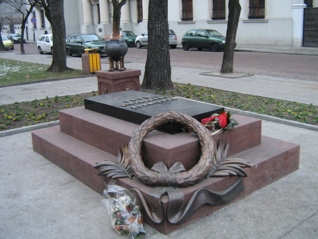 Tomb of the Unknown Soldier, Łódź